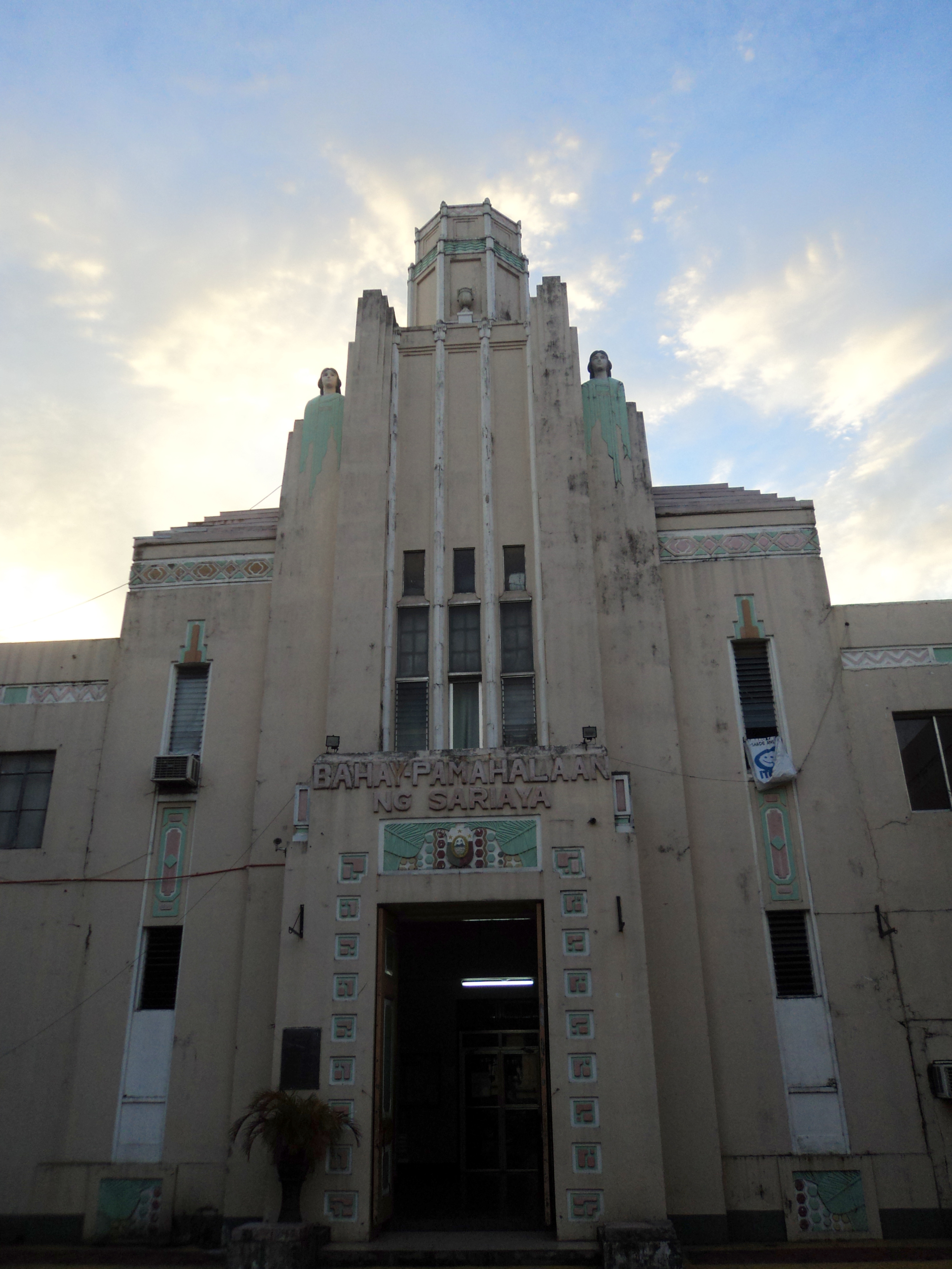 Town Hall of Sariaya, Quezon